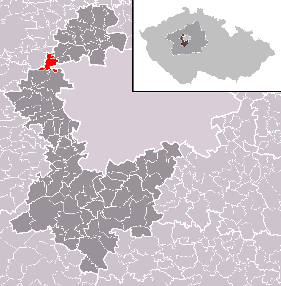 Location of Dobrovíz municipality within Prague-West District and administrative area of Černošice as a Municipality with Extended Competence.